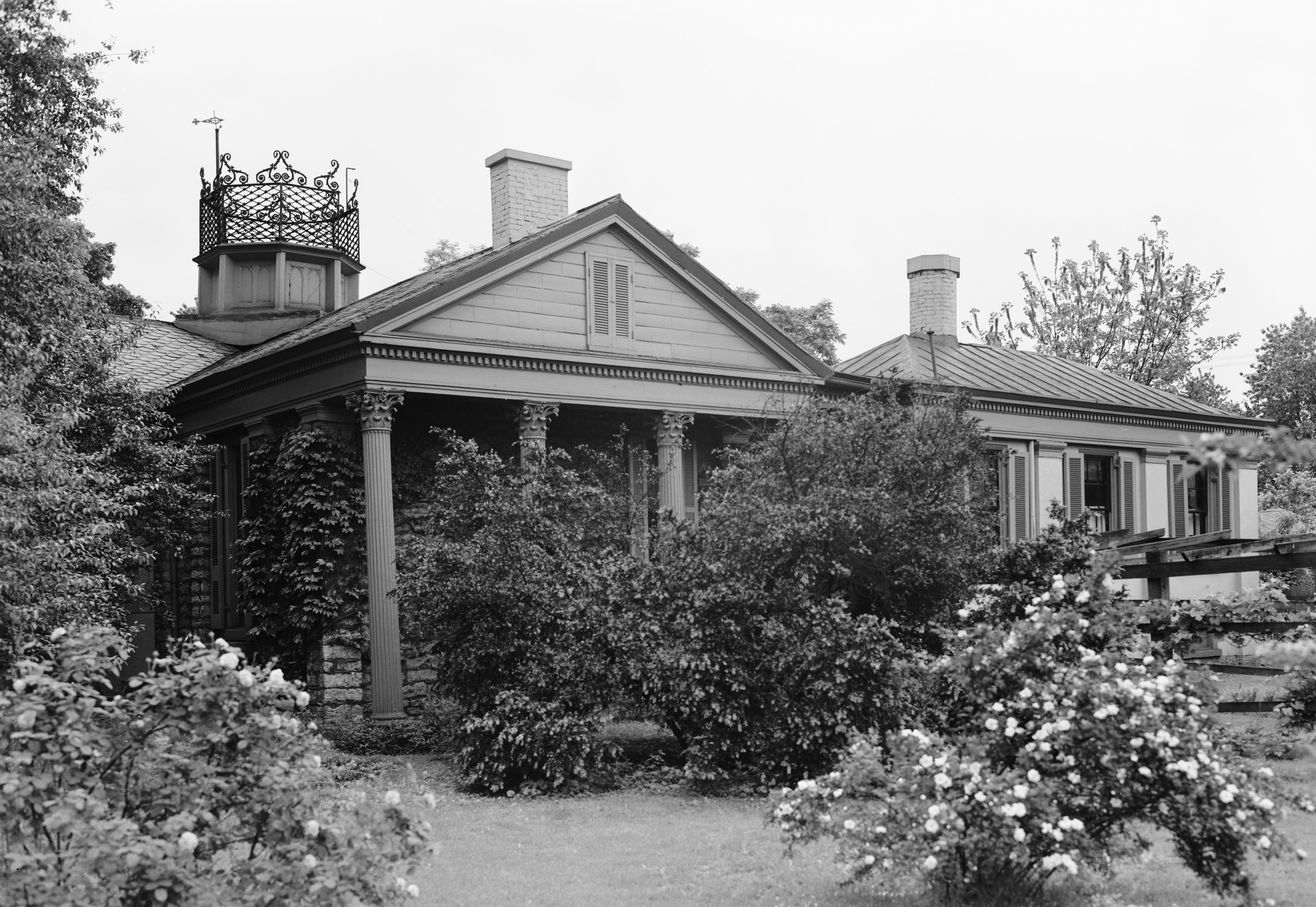 Front of Botherum, located at 441 Madison Place in Lexington, Kentucky, United States. Built in 1851, it is listed on the National Register of Historic Places.